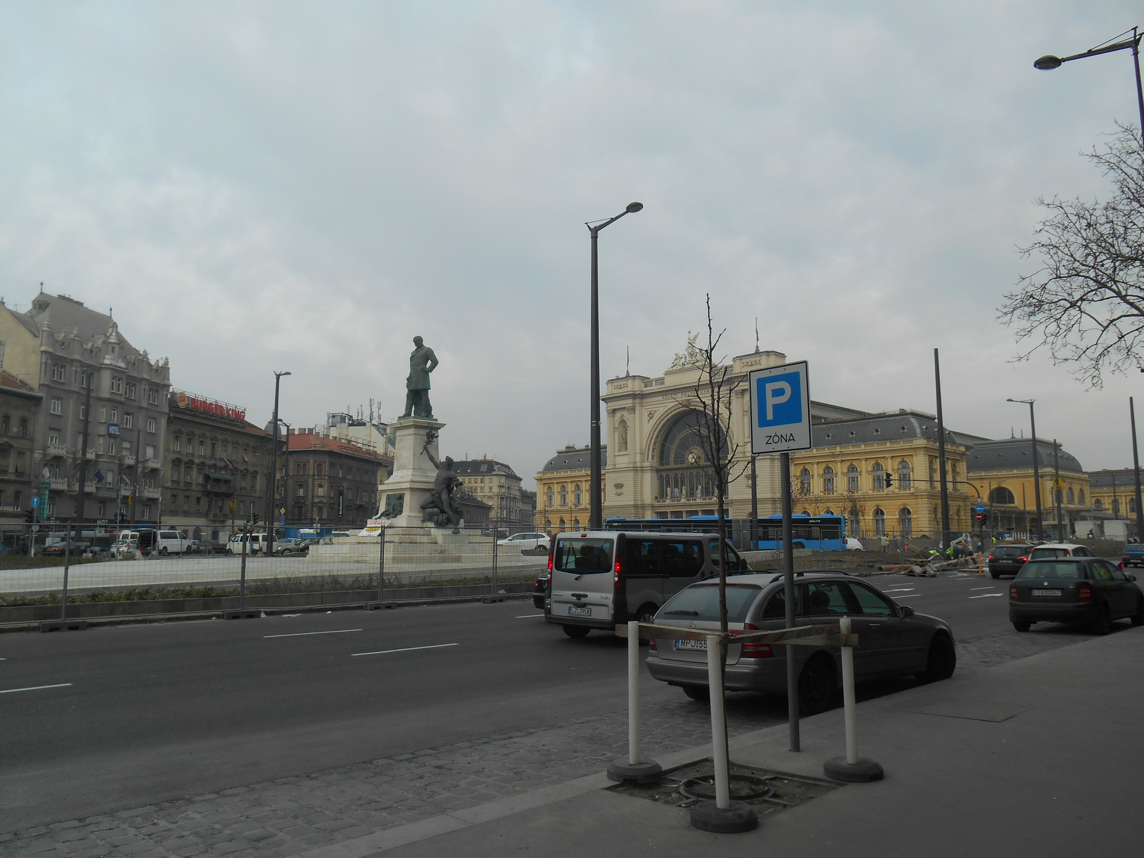 A picture of Baross tér in Budapest showing frontage of Keleti pályaudvar (Budapest Eastern Station Terminus) in the background. The statue of Gábor Baross was reinstated on 6 December 2013.